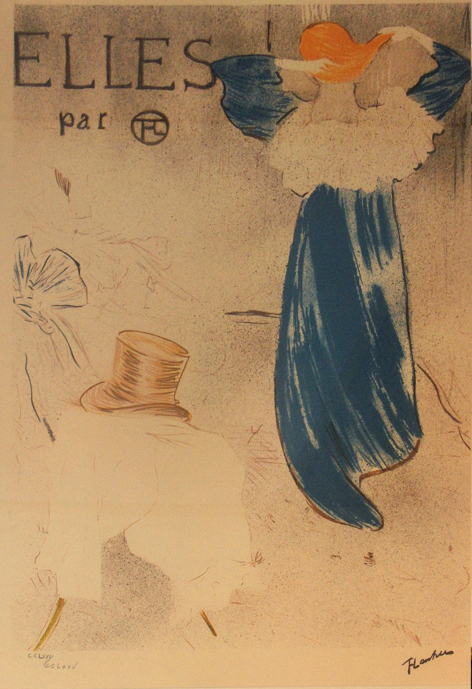 "Elles" serigraphy by Henri de Toulouse-Lautrec (1864-1901) - private collection